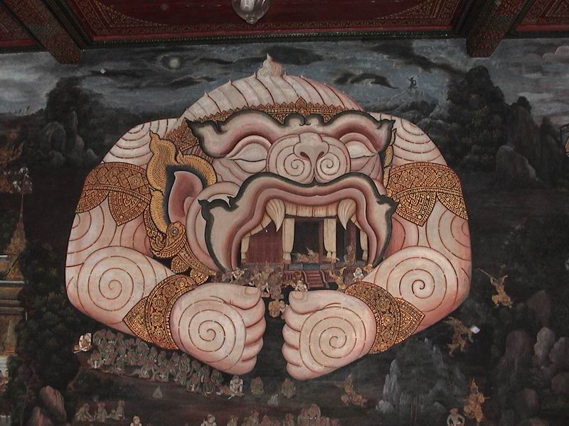 Mural: Interior wall at the grand palace. Scene from "Ramakien" ("Ramayana"): Hanuman enlarges his body to protect Rama's pavillon.